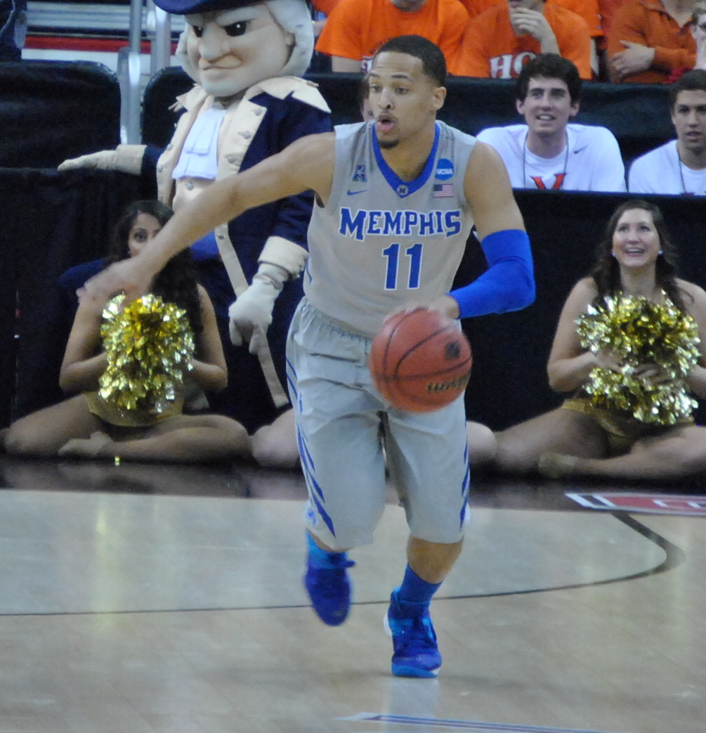 Michael Dixon handles the ball for the Tigers at the NCAA Torunament In Raleigh